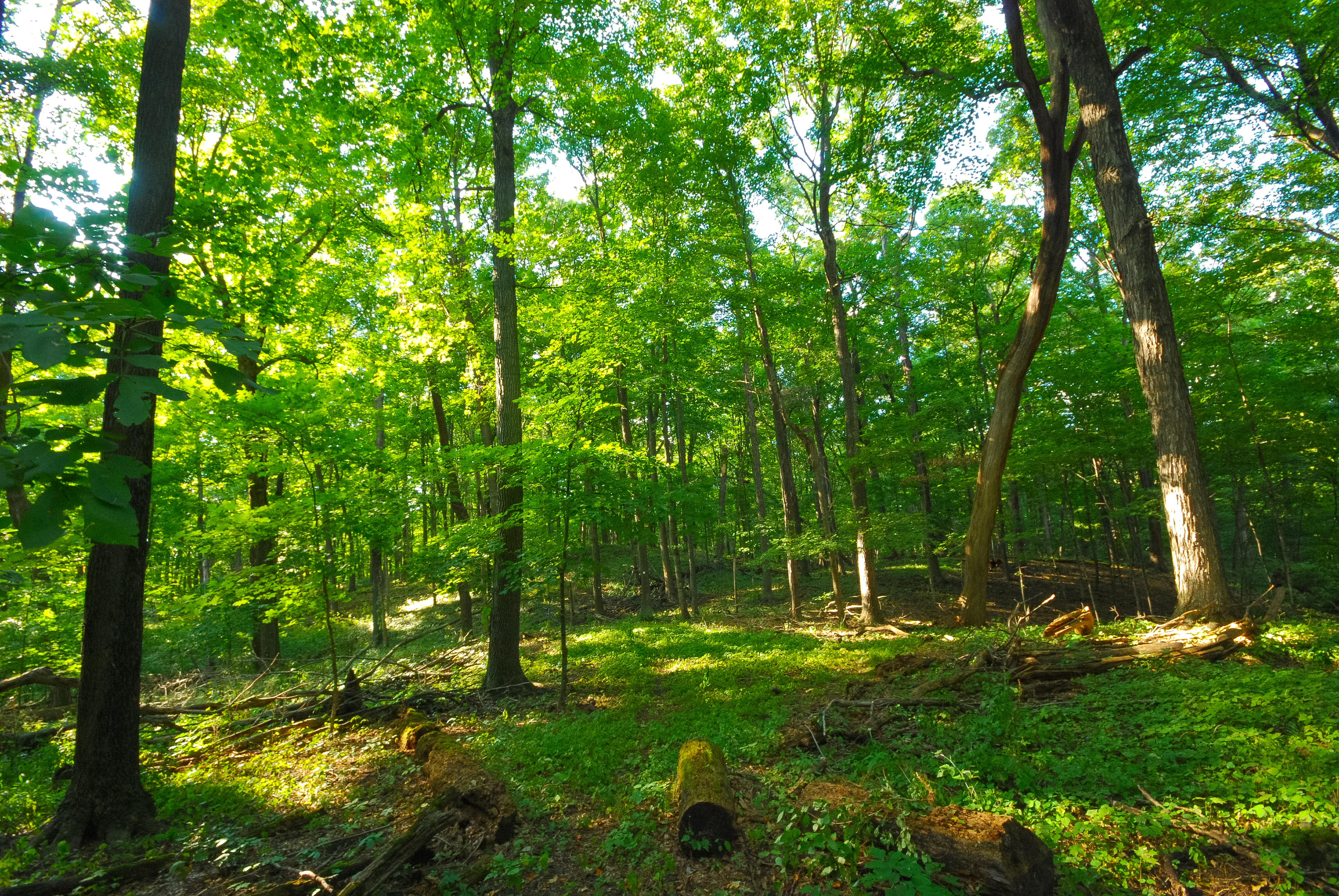 Cedarburg Beech Woods Wisconsin State Natural Area #61 Ozaukee County